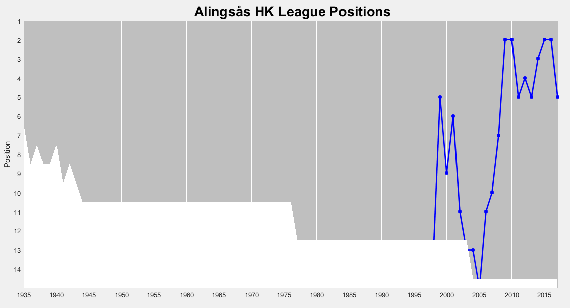 Alingsås HK positions in the top division. The grey area denotes the number of teams in the top division. For split seasons, the autumn positions are shown when the team did not play in the top division in the spring season.